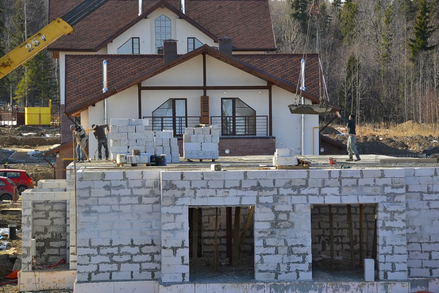 Sajnavolok